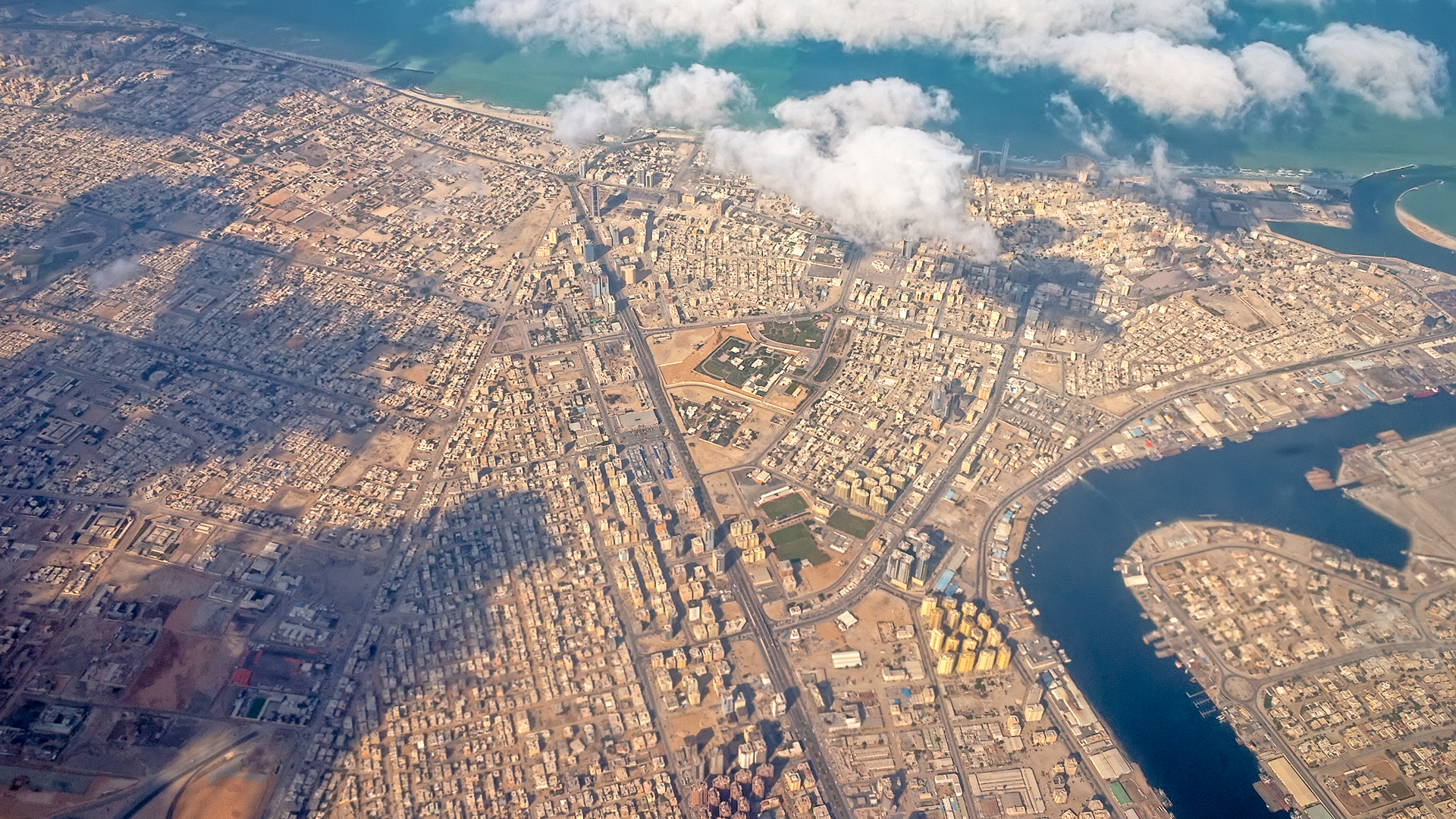 Aerial view of Ajman city from the plane